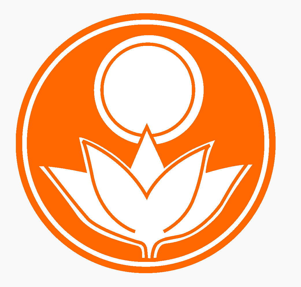 This is not an official logo of Ananda Marga Pracaraka Samgha, but it has been used for that purpose in various parts of the world, originally in Australia. The graphic depicts a lotus greeting the full moon. It is inspired by a reference in P. R. Sarkar's short story, "The Golden Lotus of the Blue Sea".